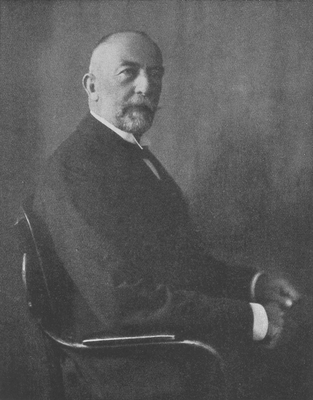 A photograph of Budislav Bude Budisavljević Prijedorski (1843-1919), Serbian writer, MP, and Grand Župan. Taken from the book Iz starog zavičaja: pripovjesti (1914). Srpski (latinica): Fotografija Budislava Bude Budisavljevića Prijedorskog (1843-1919), srpskog književnika, poslanika i velikog župana. Preuzeto iz knjige Iz starog zavičaja: pripovjesti (1914).